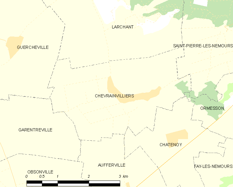 Map of French municipality Chevrainvilliers